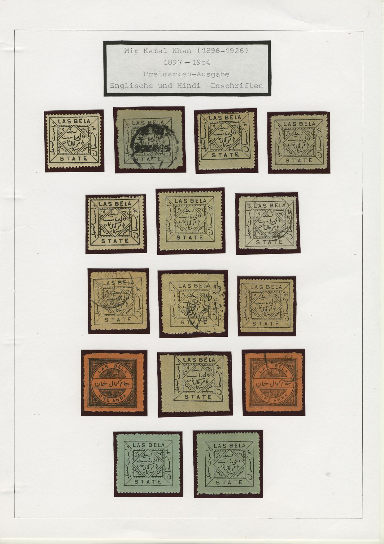 Stamps of the Jam of Las Bela Kamal Khan I, 1897-1904. was British India, present day Balochistan (Pakistan).